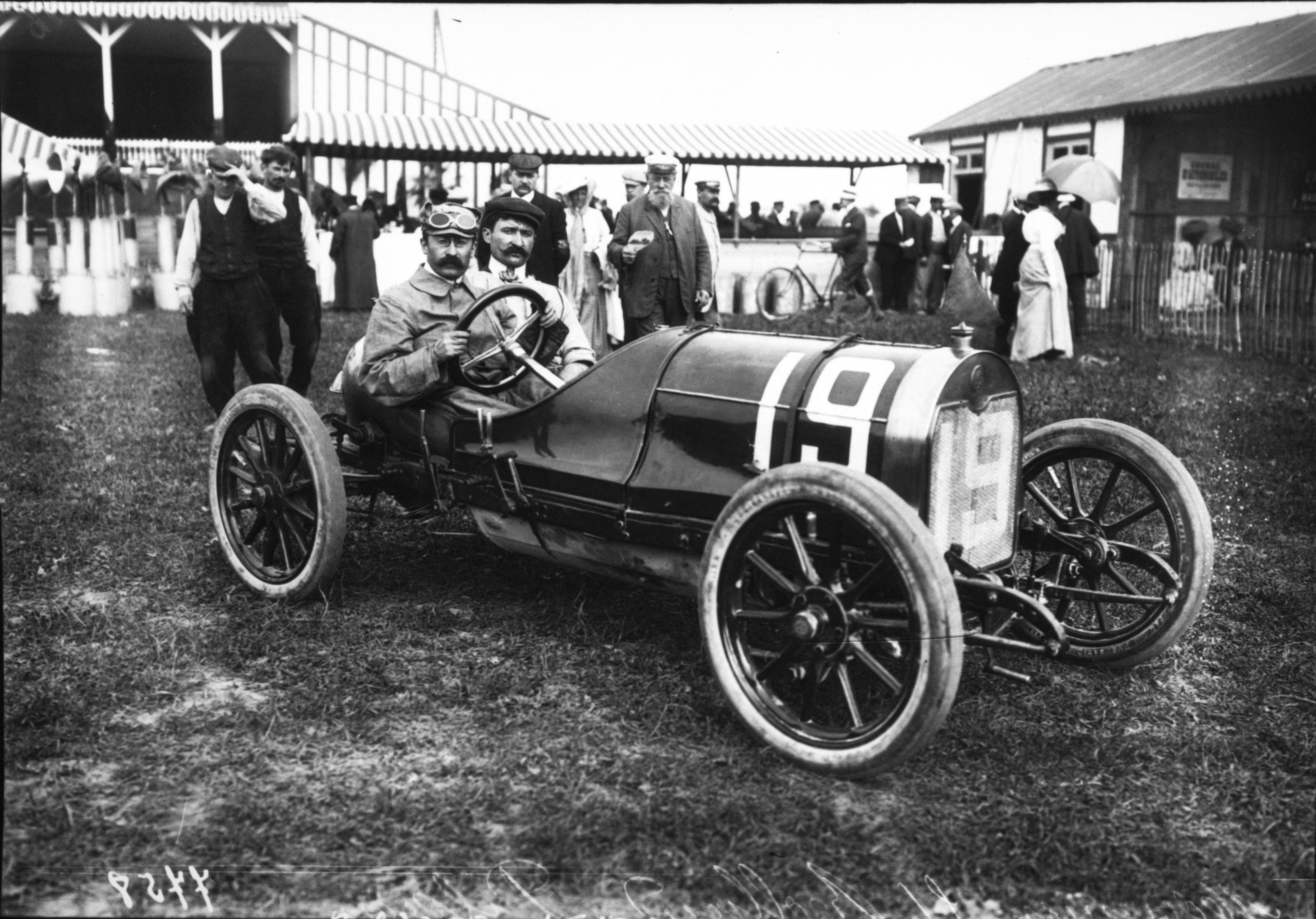 Émile Pilain in his Rolland-Pilain at the 1908 Grand Prix des Voiturettes at Dieppe.